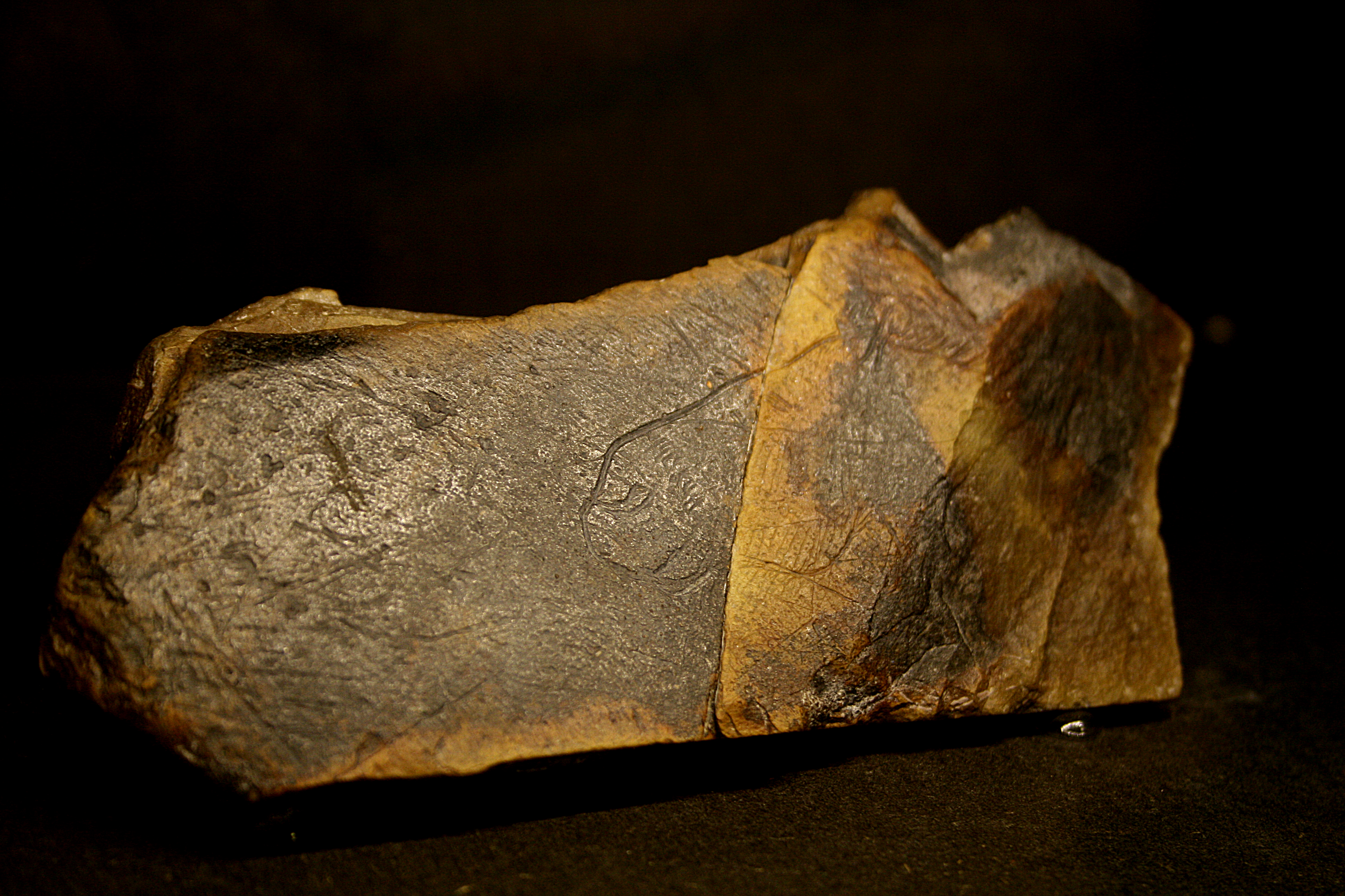 Limestone engraved plate Stage : Upper Paleolithic (- 13 000 years Before the Current Era) Locality : Cepoy, Loiret, France